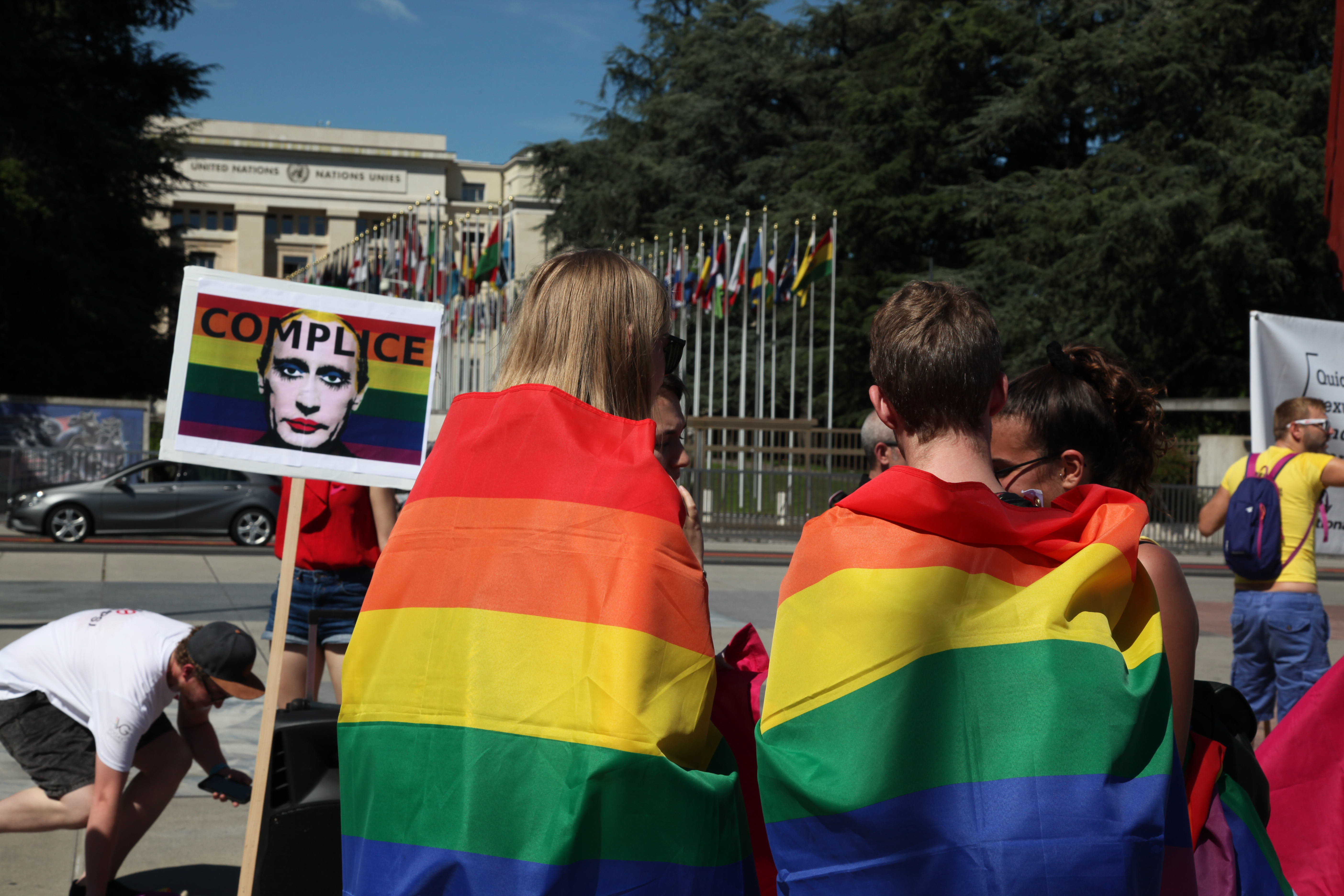 Demonstration at Place des Nations in Geneva against Chechen persecution of LGBT people